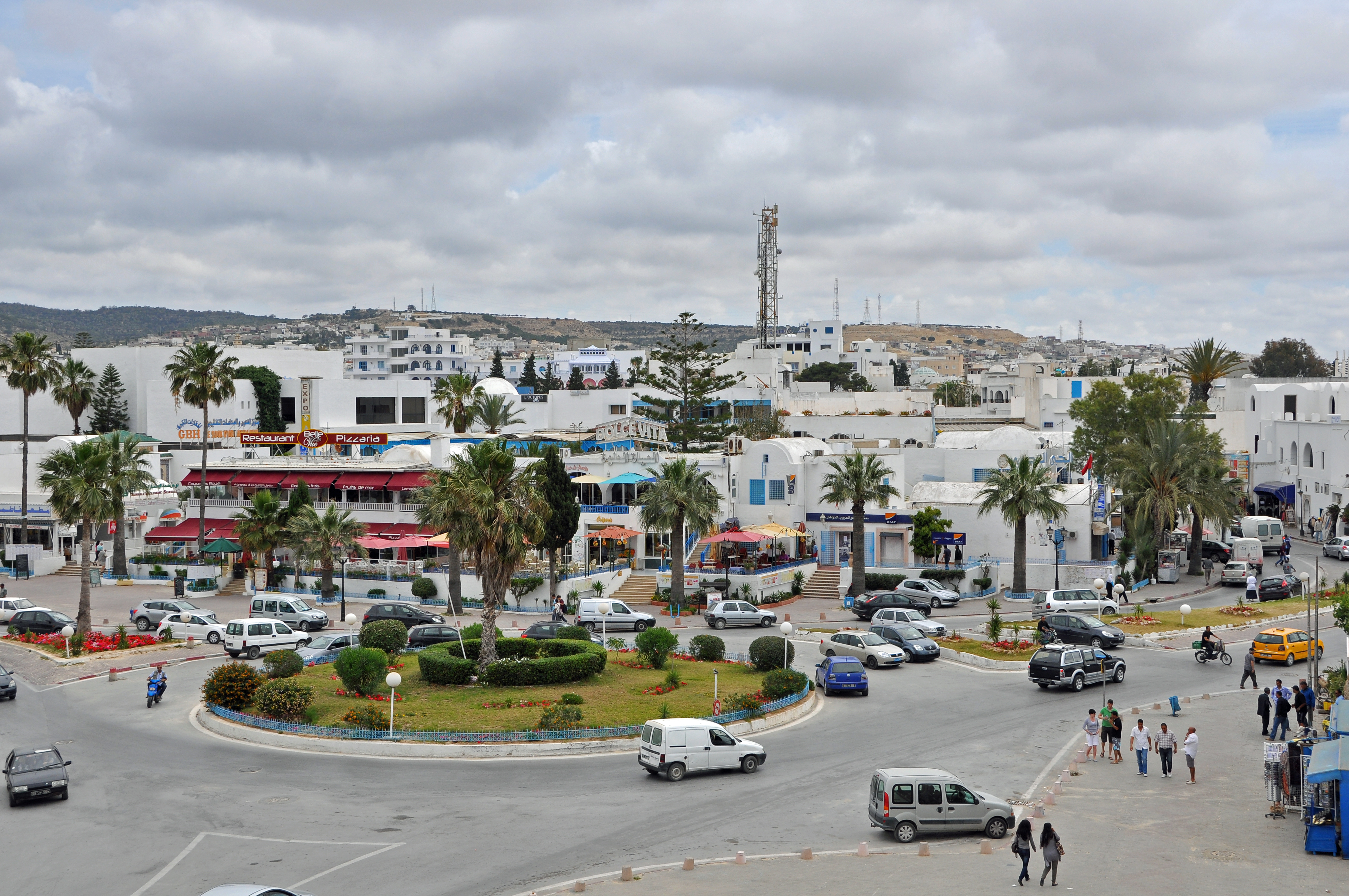 Hammamet (Tunisia): the roundabout near the Place des Martyrs, the Shopping Center and the Avenue de la Libération, all seen from the Kasba